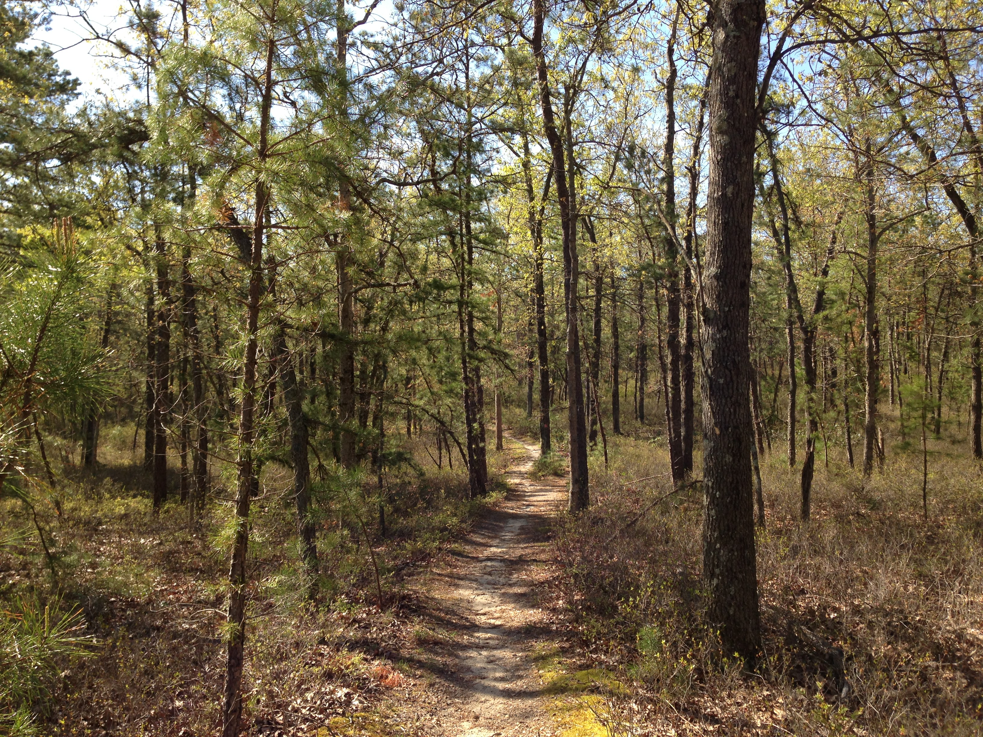 View southeast along the Batona Trail in Brendan T. Byrne State Forest, New Jersey